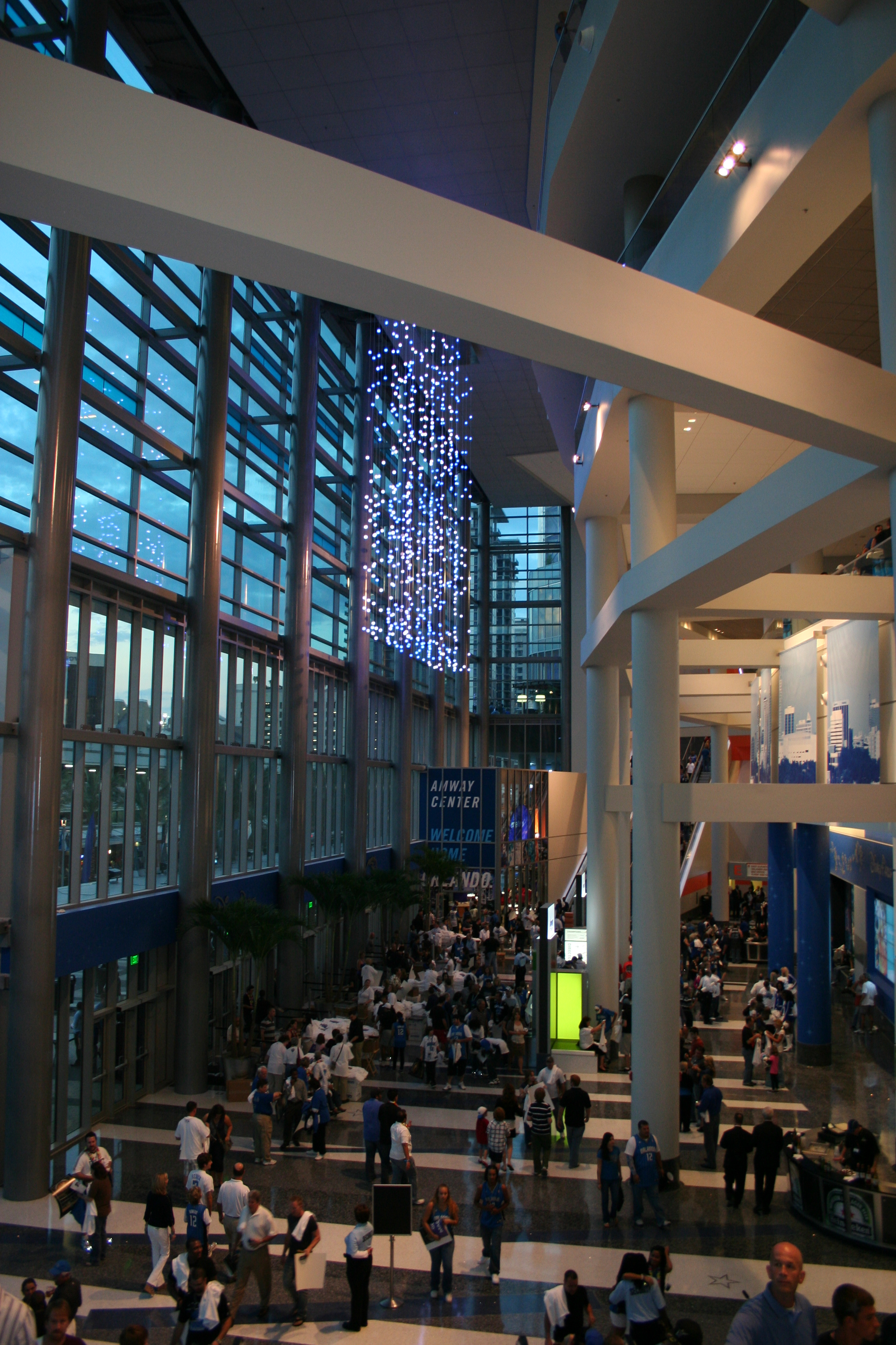 Amway Center's north concourse.